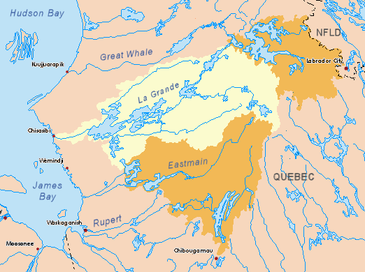 Drainage basin of the La Grande River, Quebec, Canada. Updated for 2010. For prior to 2010, see File:La_Grande_map.png. Yellow = original basin Orange = diverted basins into the La Grande River